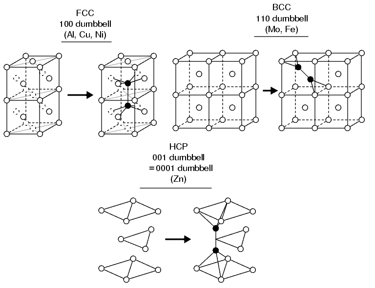 Structure of self-interstitial in some common metals. The left-hand side of each crystal type shows the perfect crystal and the right-hand side the one with a defect. Kai Nordlund, originally made for docent lecture in 1998 with FrameMaker, text changed to English in 2007 with gimp.